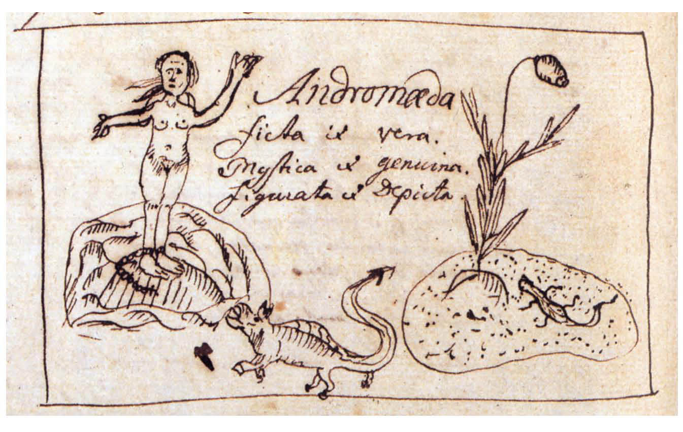 Drawing made by Linnaeus while on his expedition to Lapland comparing the legendary Andromeda to a small plant which he later gave that name.